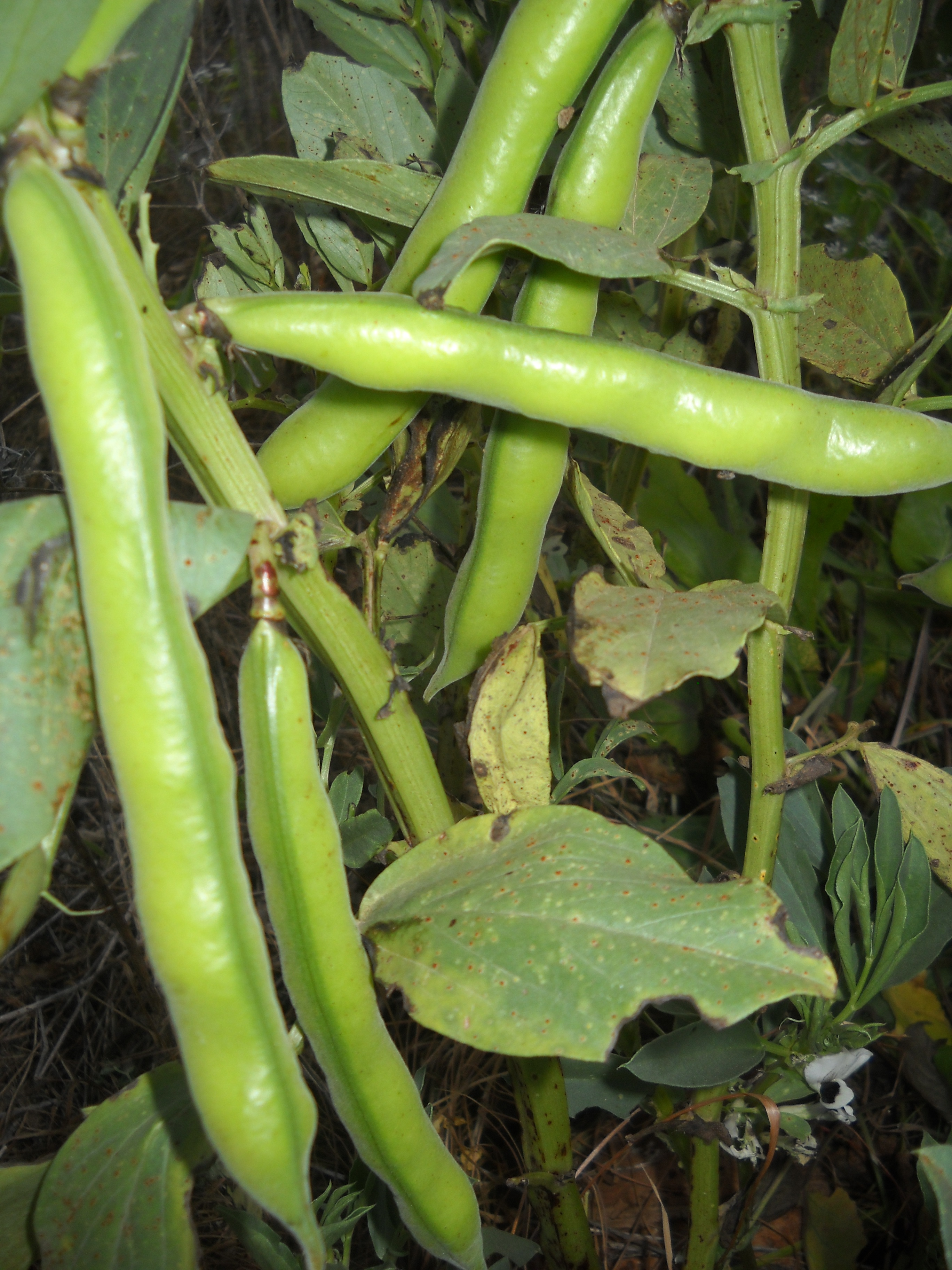 Green Bean.